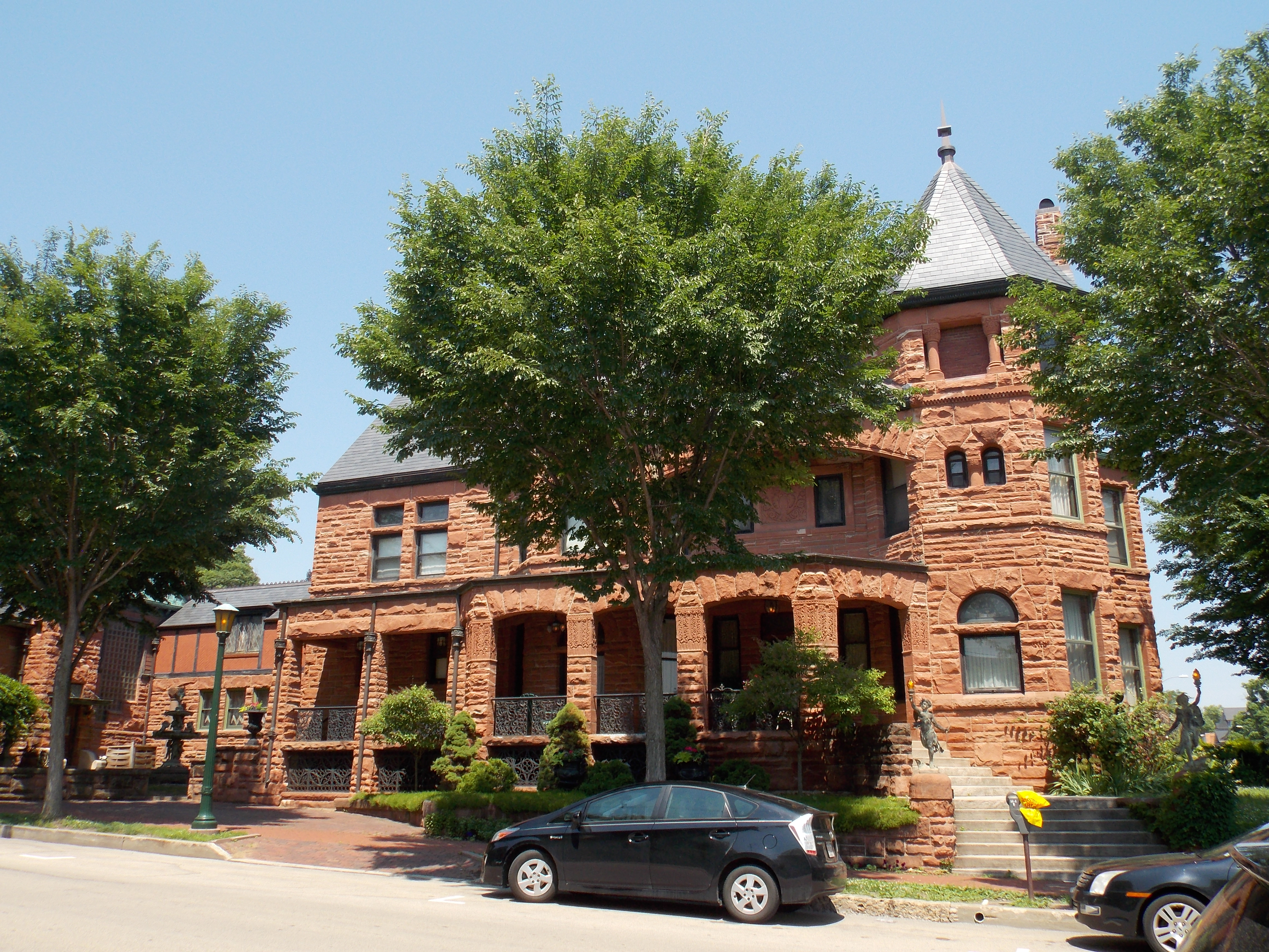 The former residence of the Catholic Archbishop of Dubuque, Iowa, also known as the F.D. Stout House. It is a contributing property in the Jackson Park Historic District.